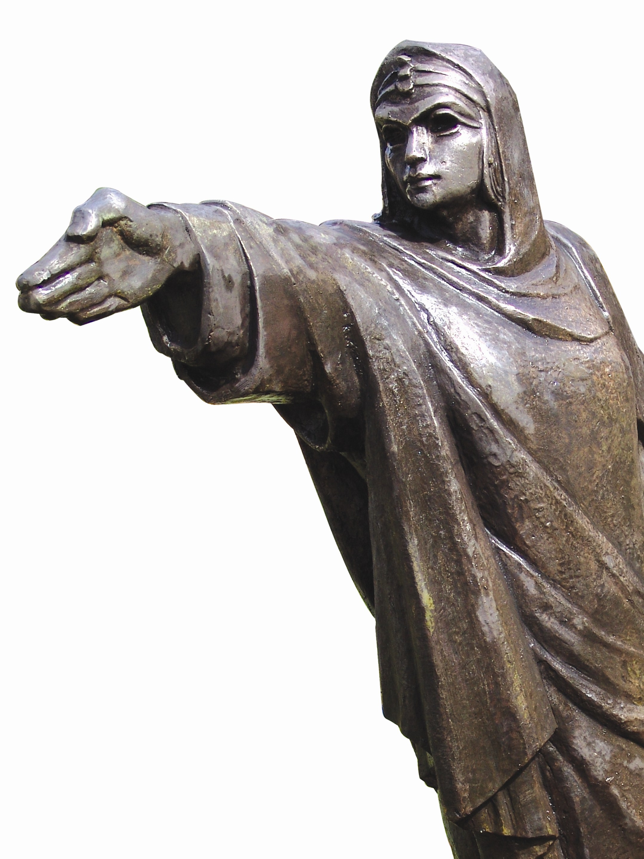 Statue details by Egyptian Sculoptor Gamal Sagini called Egypt The Future